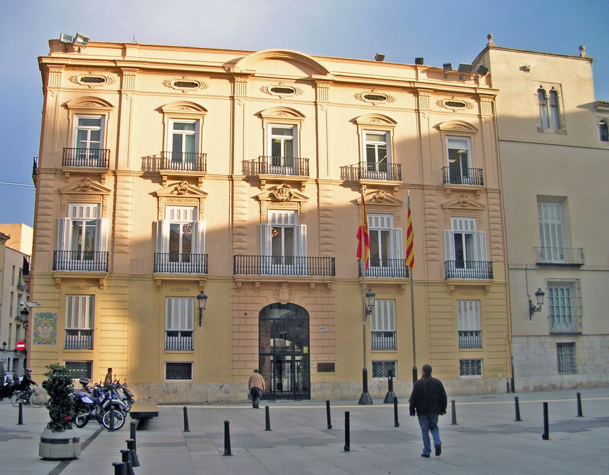 Palau de Batllia